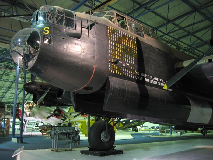 Front of Avro Lancaster "S for Sugar" of 463/467 Squadron RAAF, on display at the RAF Museum in Hendon. Visible below the cockpit are the words "No enemy plane will fly over the Reich territory" - a quote from the leader of the Luftwaffe, Hermann Göring.